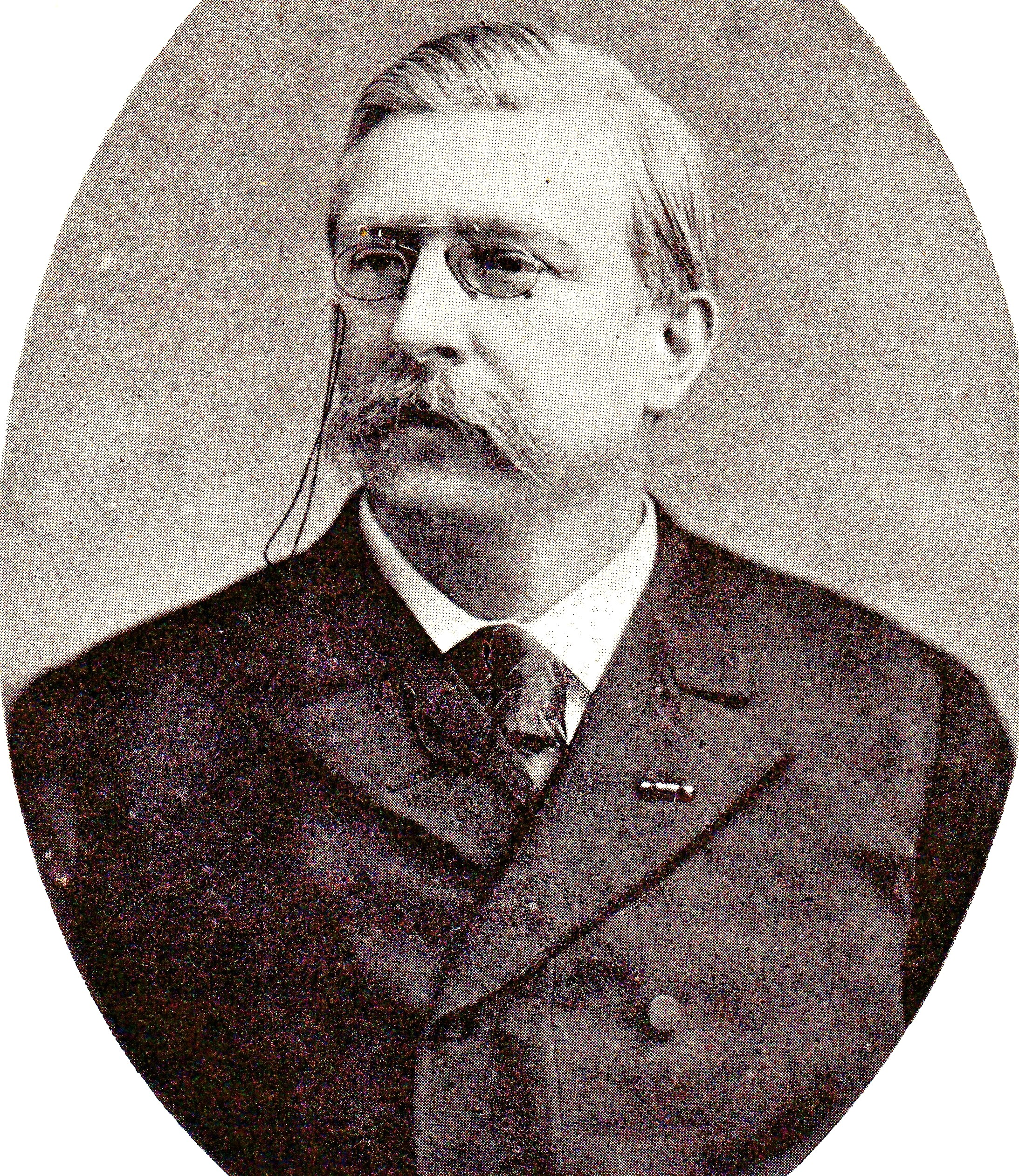 Willem Karel Baron van Dedem